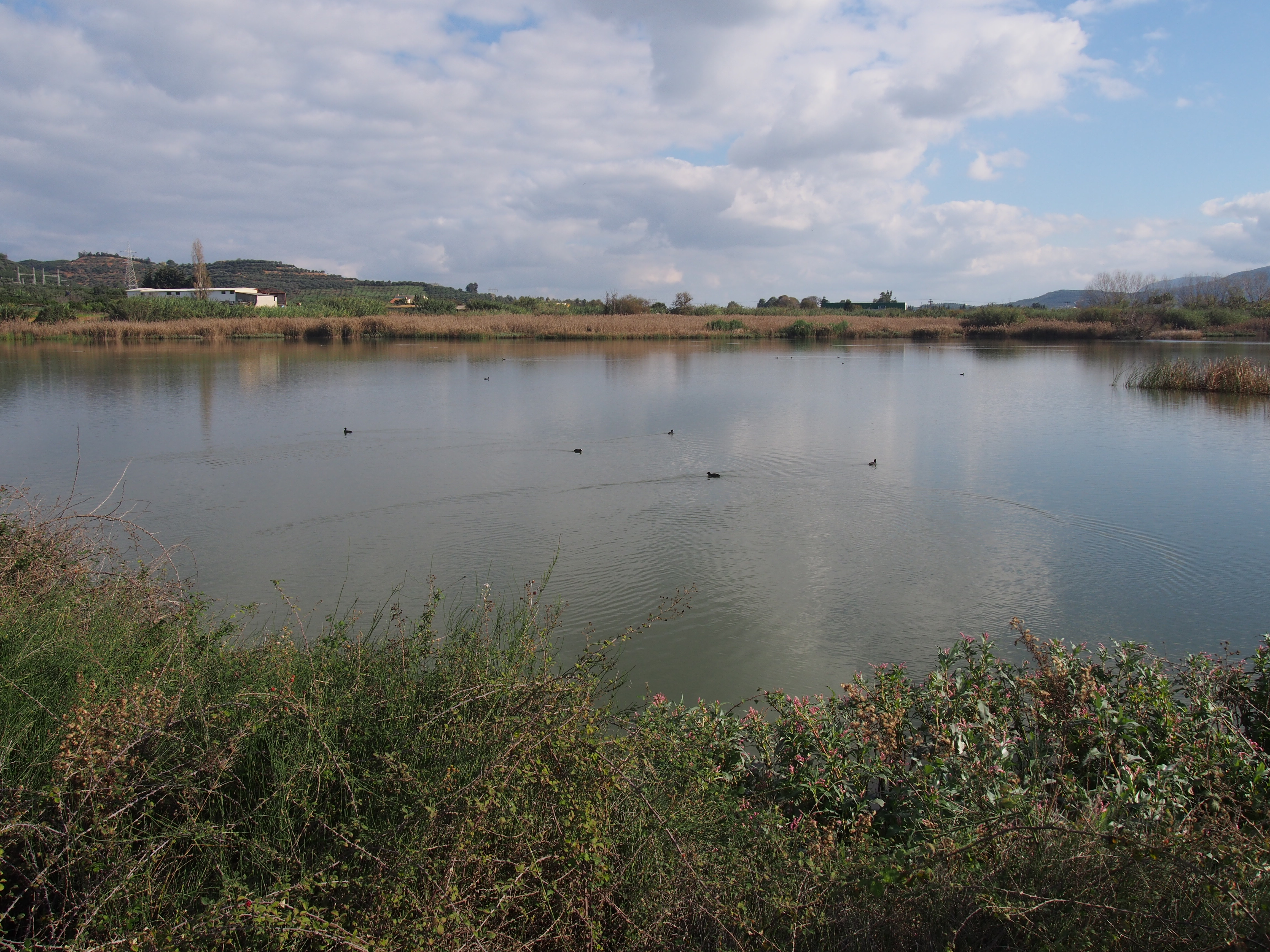 View of the lake of Ayia, Crete. The lake is artificial, created by Public Electricity Corp of Greece (ΔΕΗ).